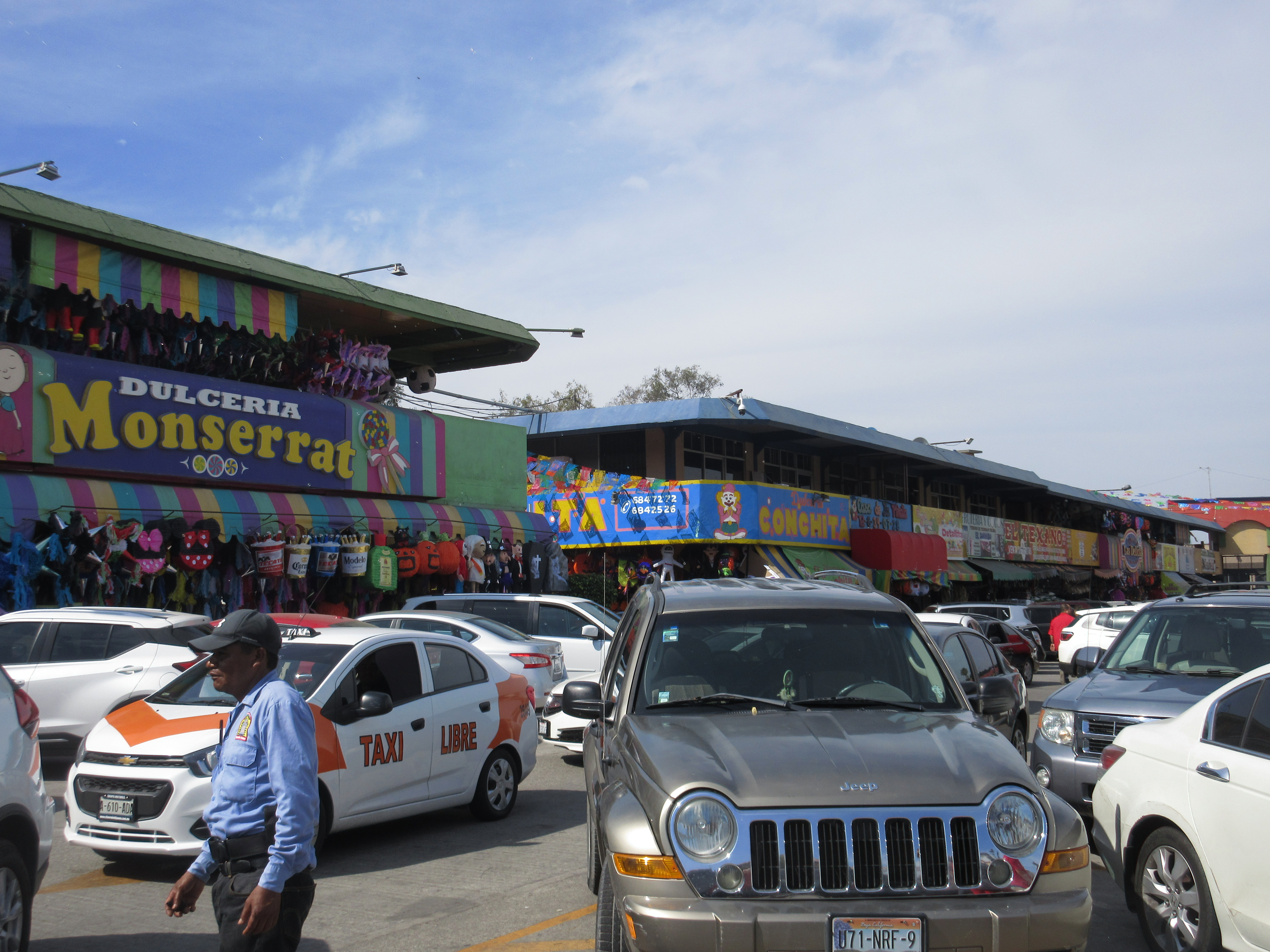 Mercado Hidalgo is a traditional market with vendor stalls selling food.